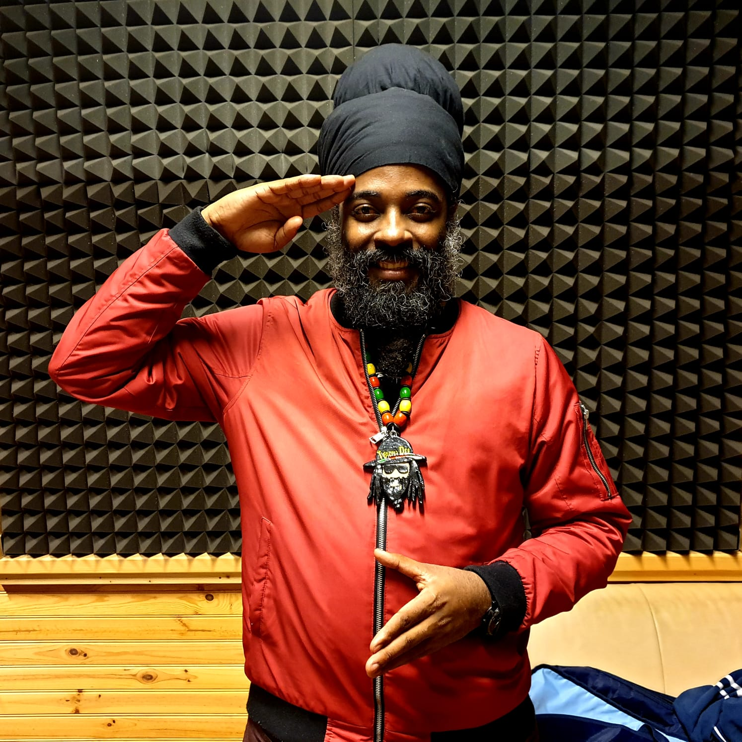 Teacha Dee in France 2019